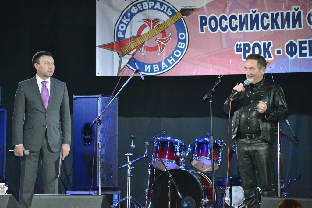 Поздравление участникам от директора фестиваля Н.В. Хомского (справа).